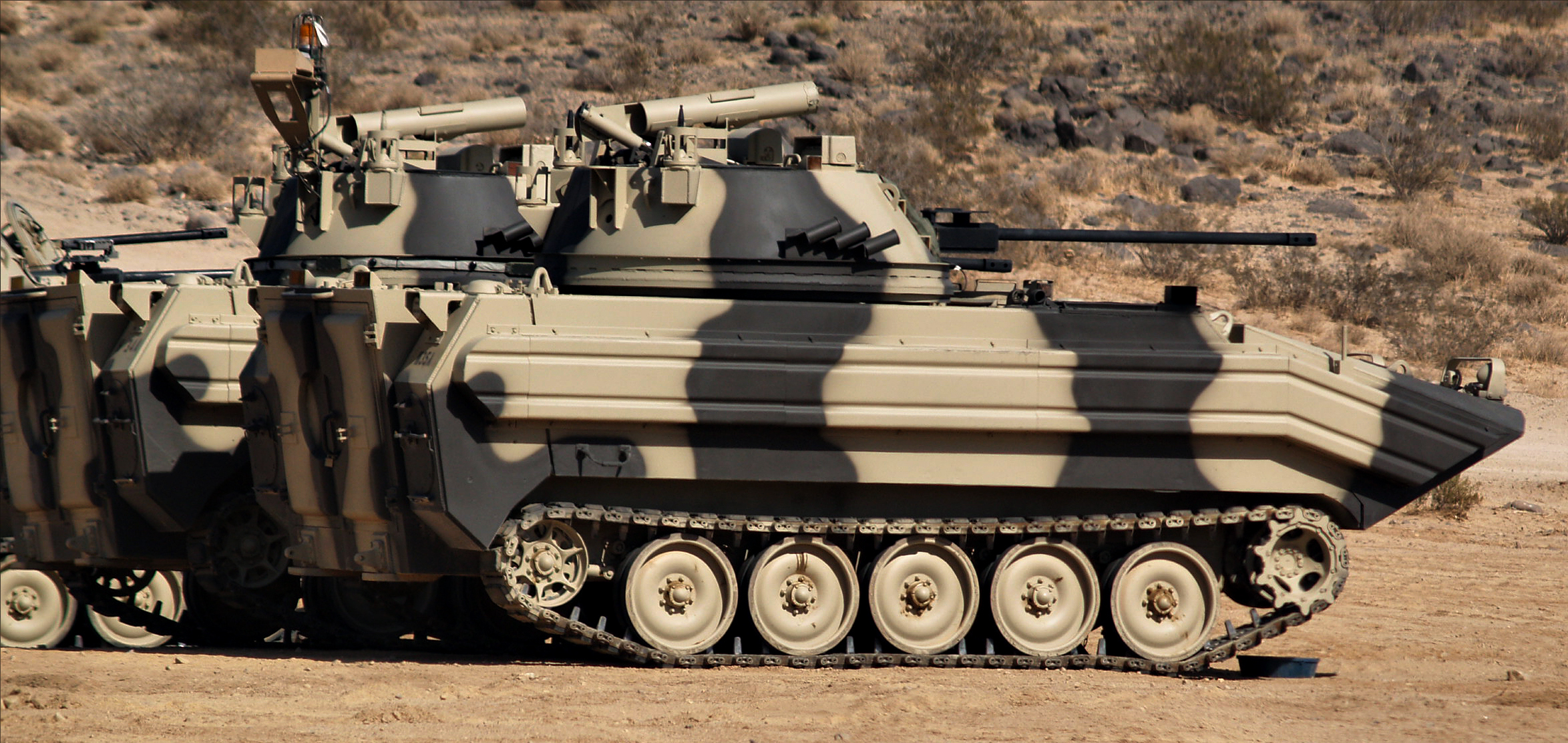 an Operation force Surrogate Vehicle (OSV) Representing a Soviet BMP at Fort Irwin, California (National Training Center)